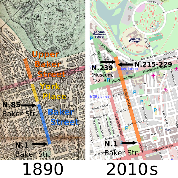 Baker Street (London), in 1890 and nowadays, with important places located. N.1 is located to understand where the street begins. N.85 was the last number of Baker Street in 1890 (until 1930). N.215-229 is the current building including N.221. N.239 is the Sherlock Holmes Museum, with "221B" written above the door.